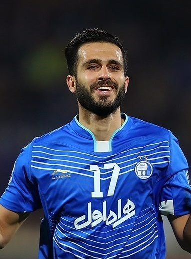 Esteghlal Lokomotiv, AFC Champions League